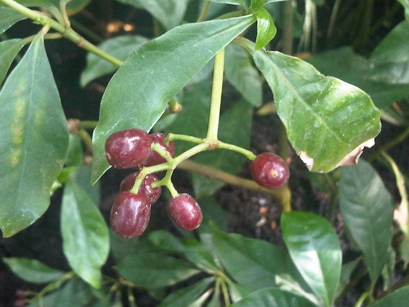 Psychotria carthagenensis fruits in Kew Gardens, England.